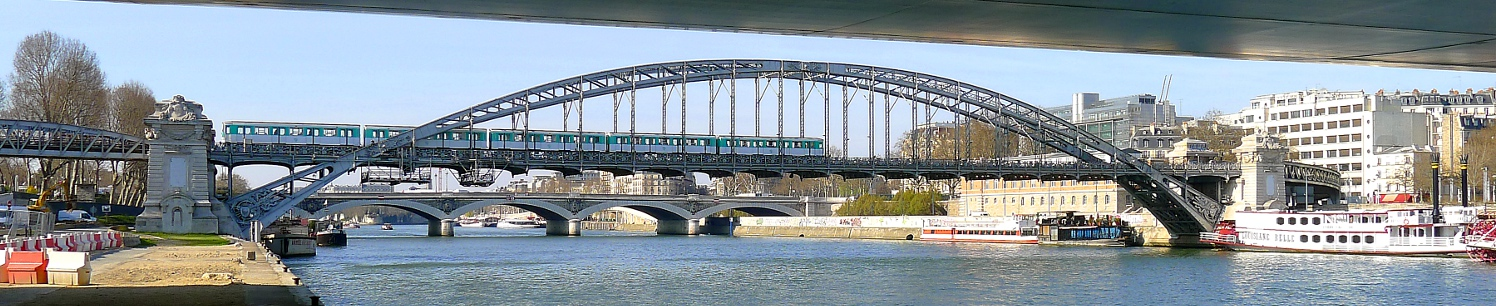 Viaduc d'Austerlitz - Paris